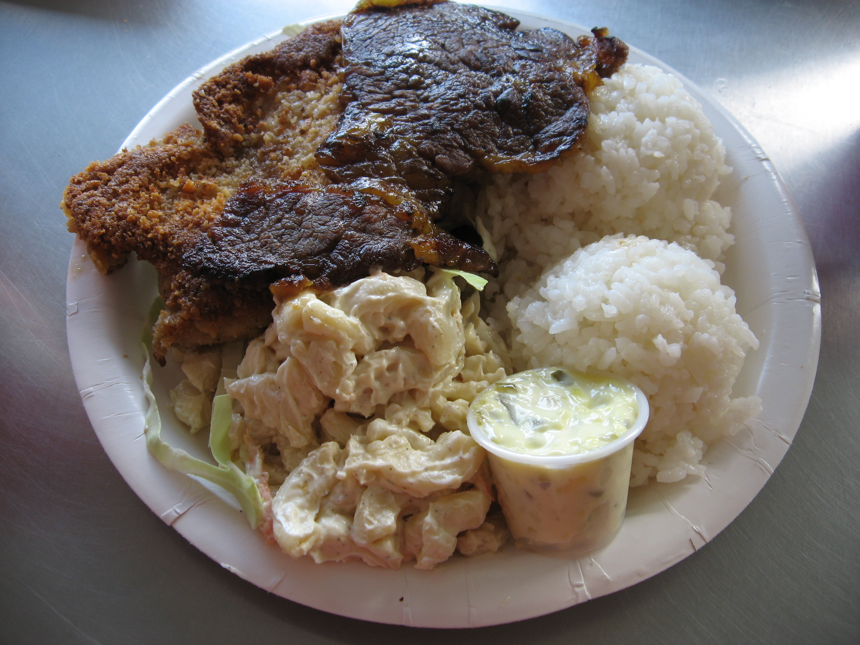 fried mahi mahi, bbq beef and chicken cutlet